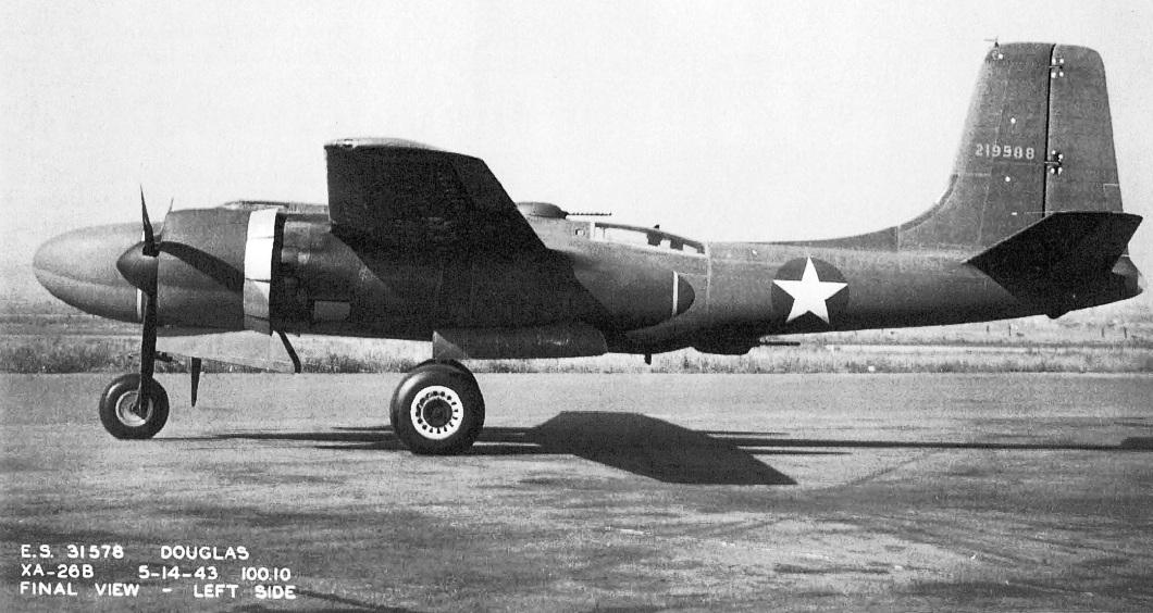 Douglas XA-26B Invader 5-14-1943. Solid nose was intended to allow a combination of weapons, included a 75 mm cannon.